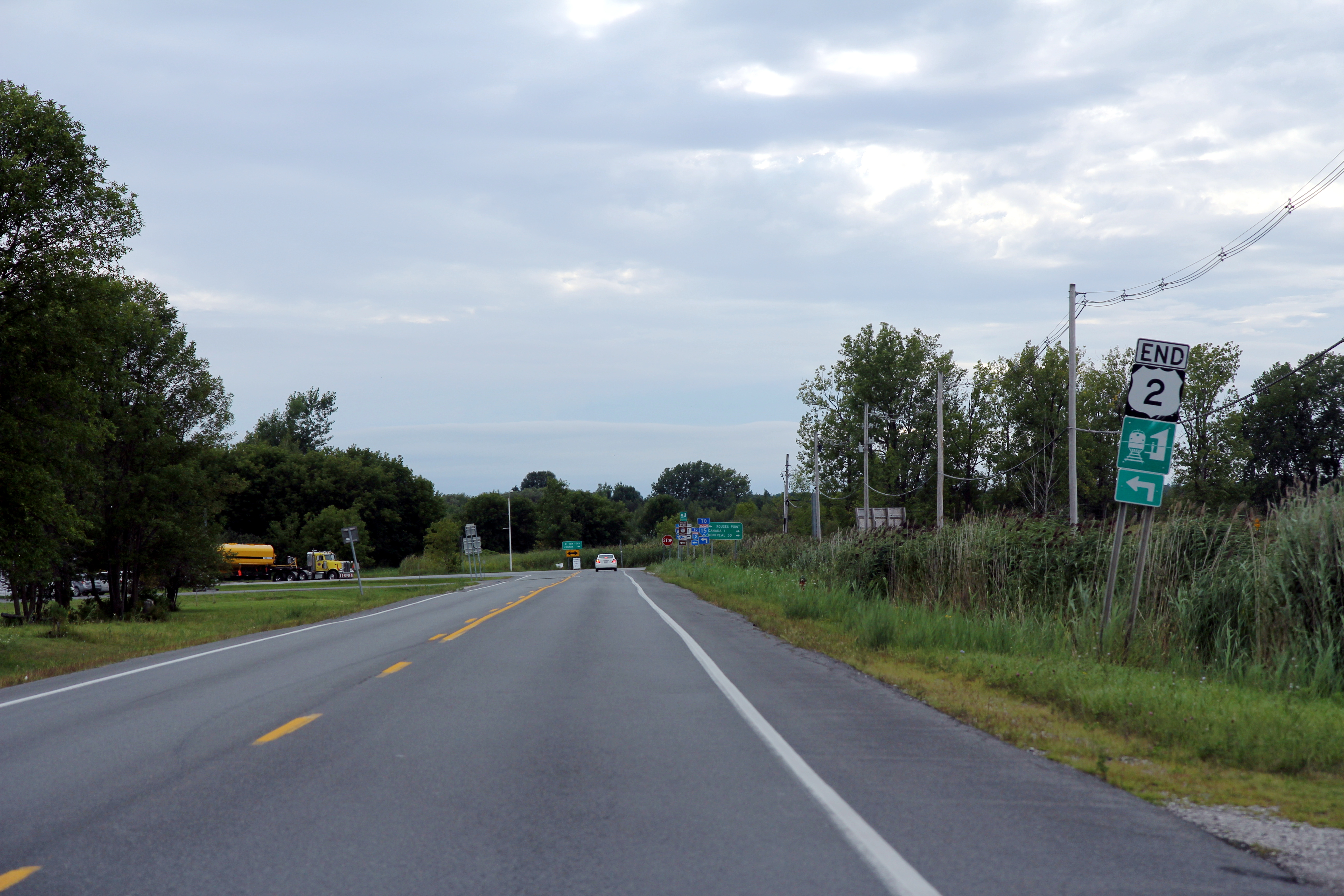 Looking westerly at the west terminus of the east section of U.S. 2 in eastern New York.